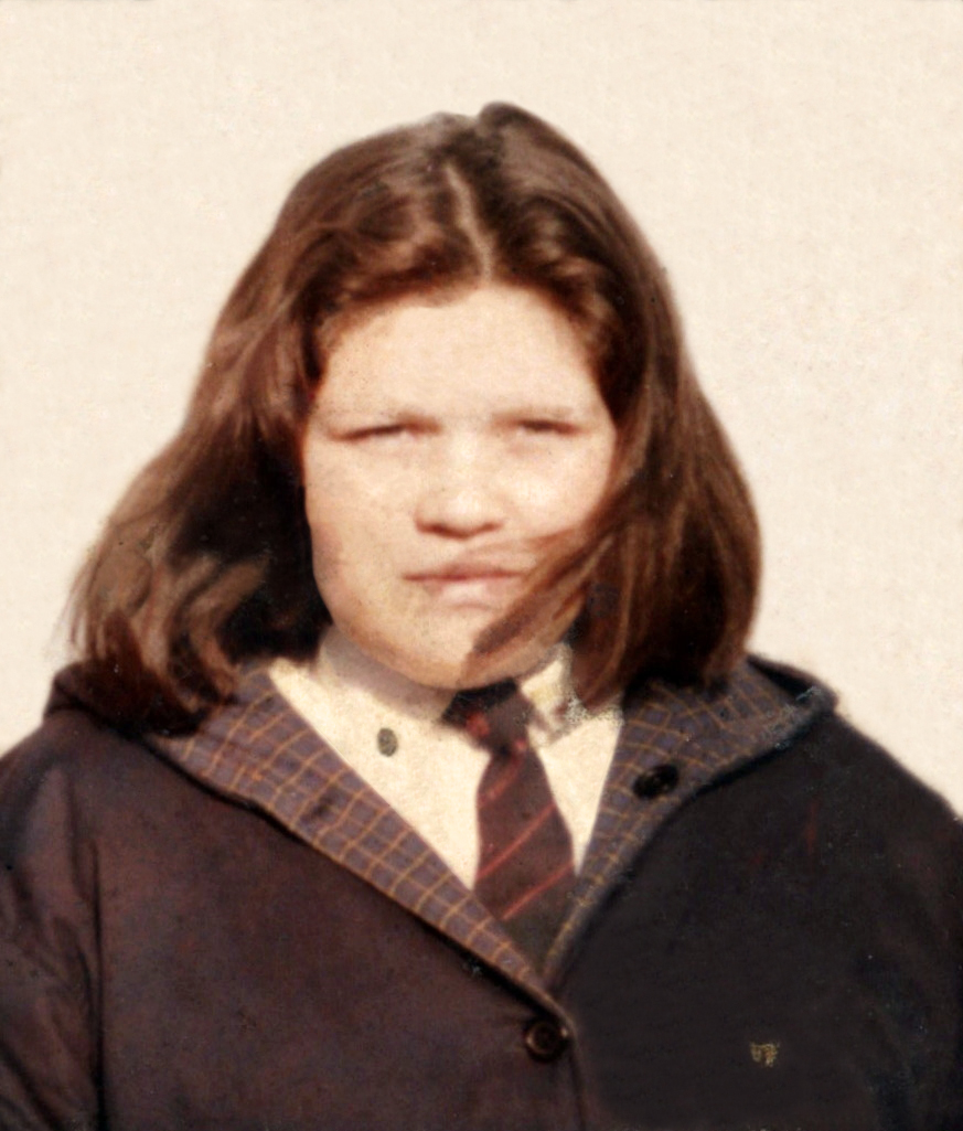 A girl with a typical chilean school uniform.